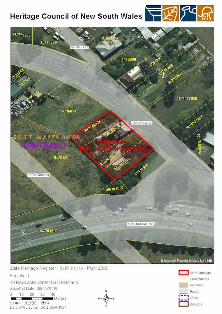 Englefield, East Maitland: SHR Plan 2206